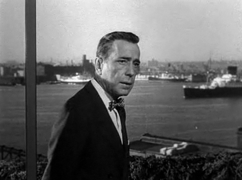 Screenshot of Humphrey Bogart from the trailer for the film Sabrina (1954 film)